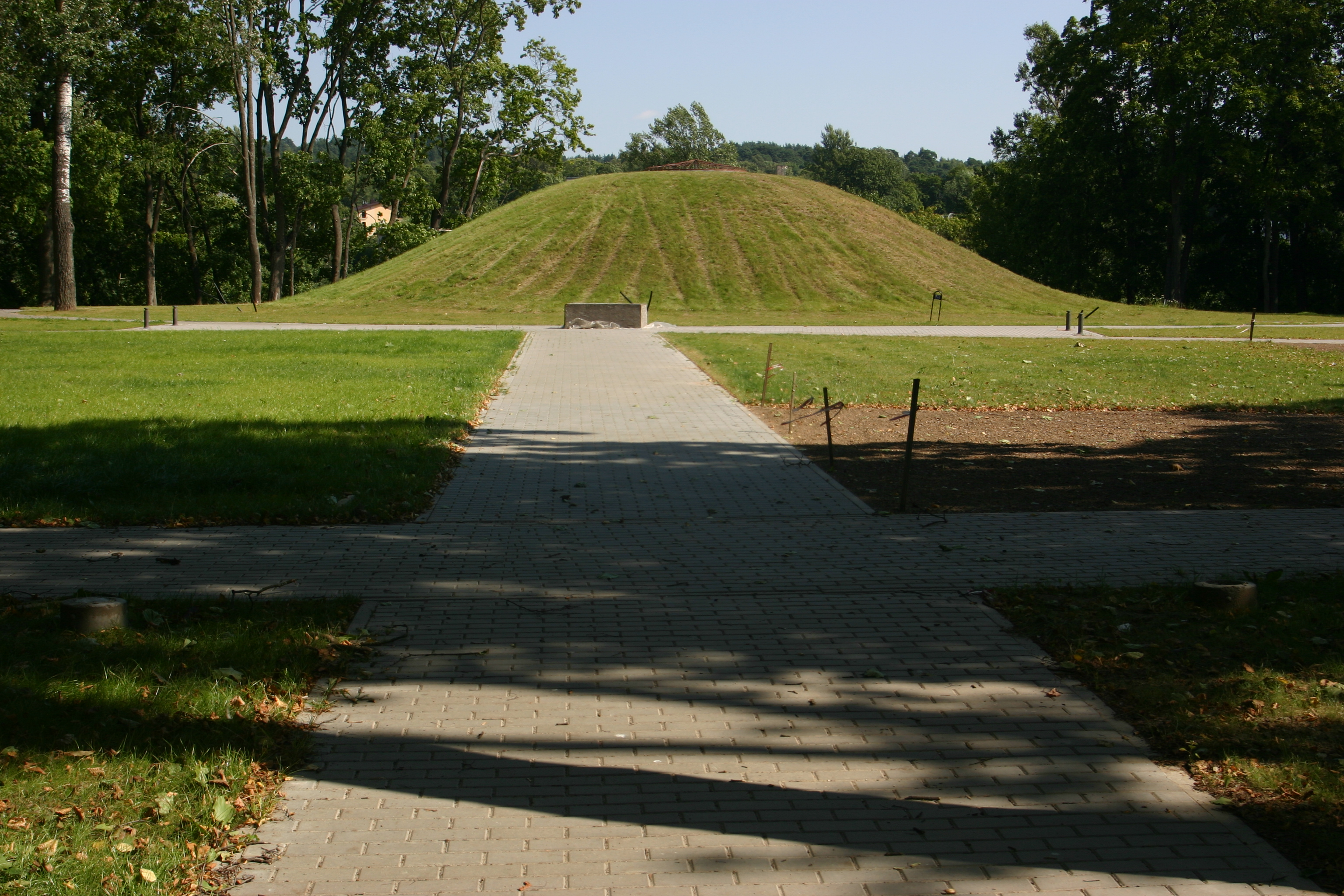 Russian occupation (Soviet Union) of the NKVD-istų euthanised victims Columbarium in Vilnius